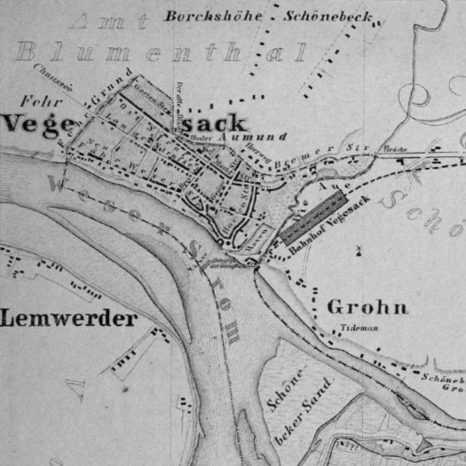 Cut of the topographic map of the territory of Bremen in 1860, revised 3rd edition of the map of 1851 (by the same authors)